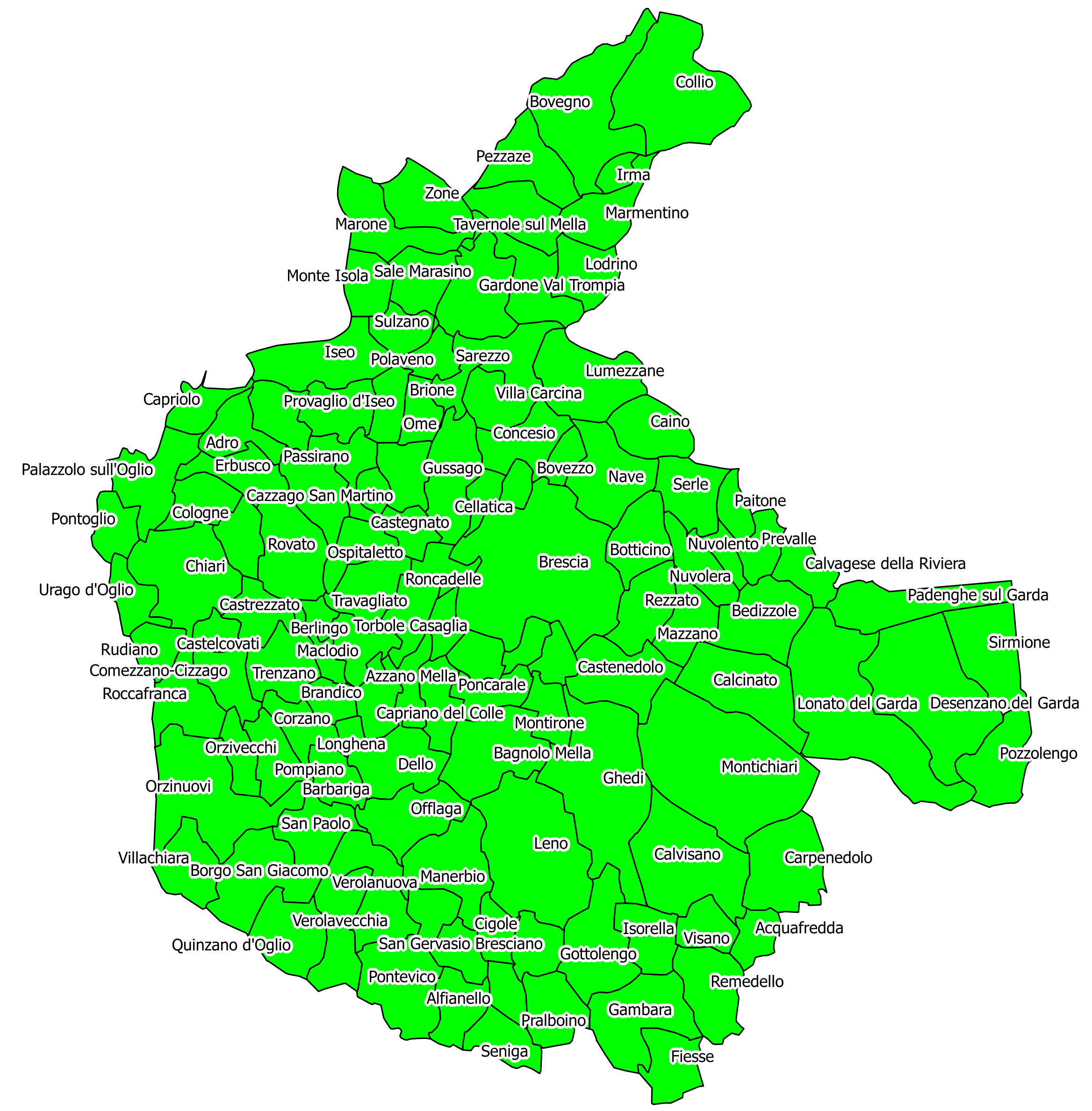 made with qgis